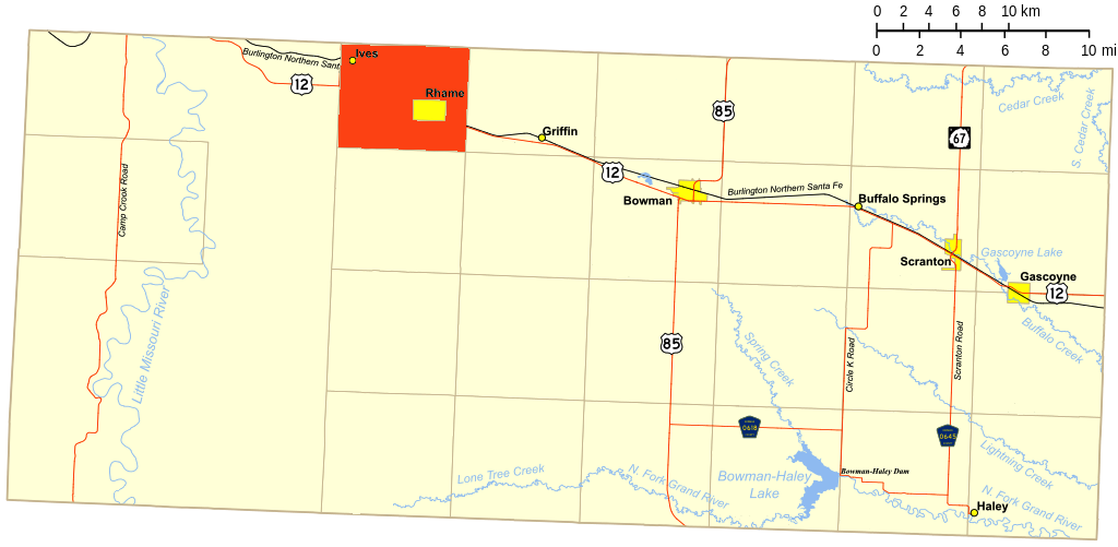 Map of Bowman County, North Dakota, with Rhame Township highlighted.